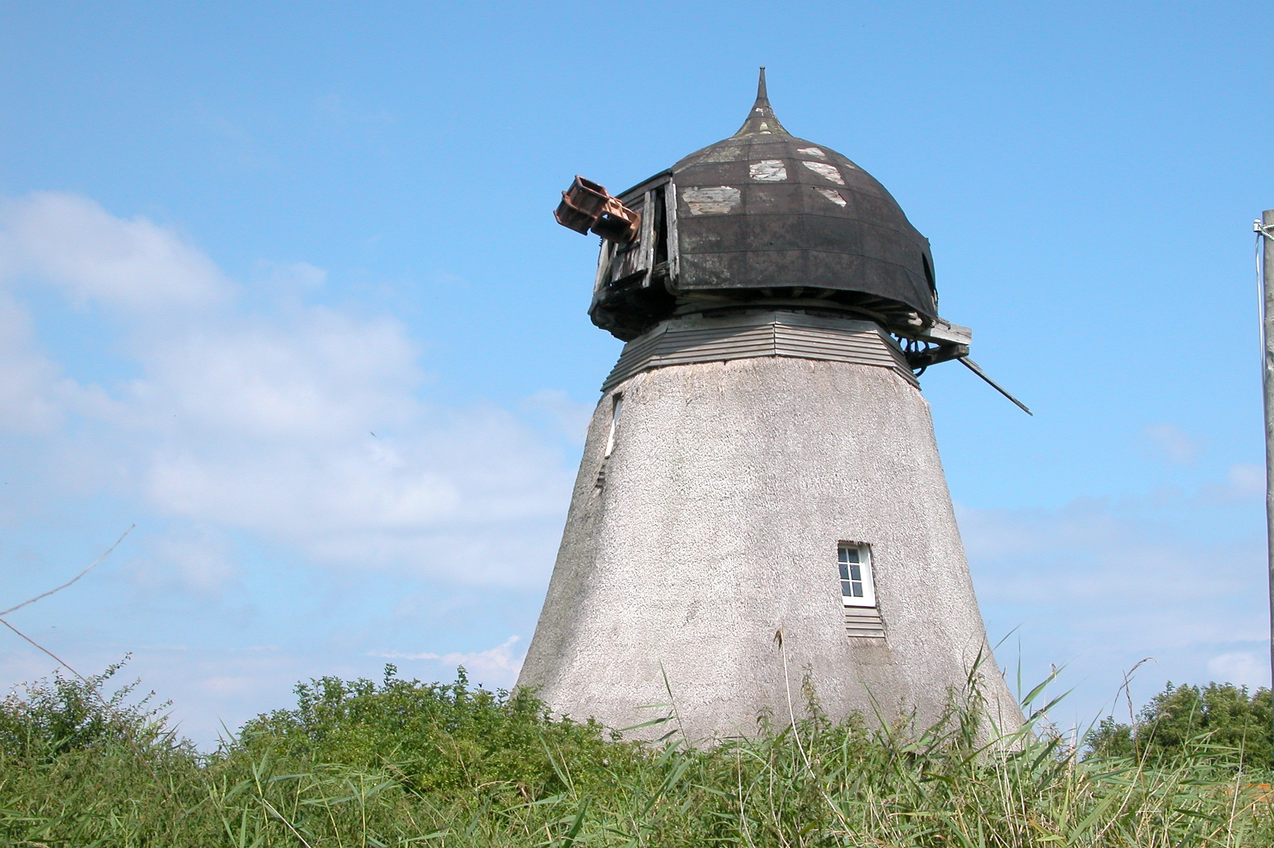 Vitsø Mølle, Vitsø Nor, Ærø, Denmark